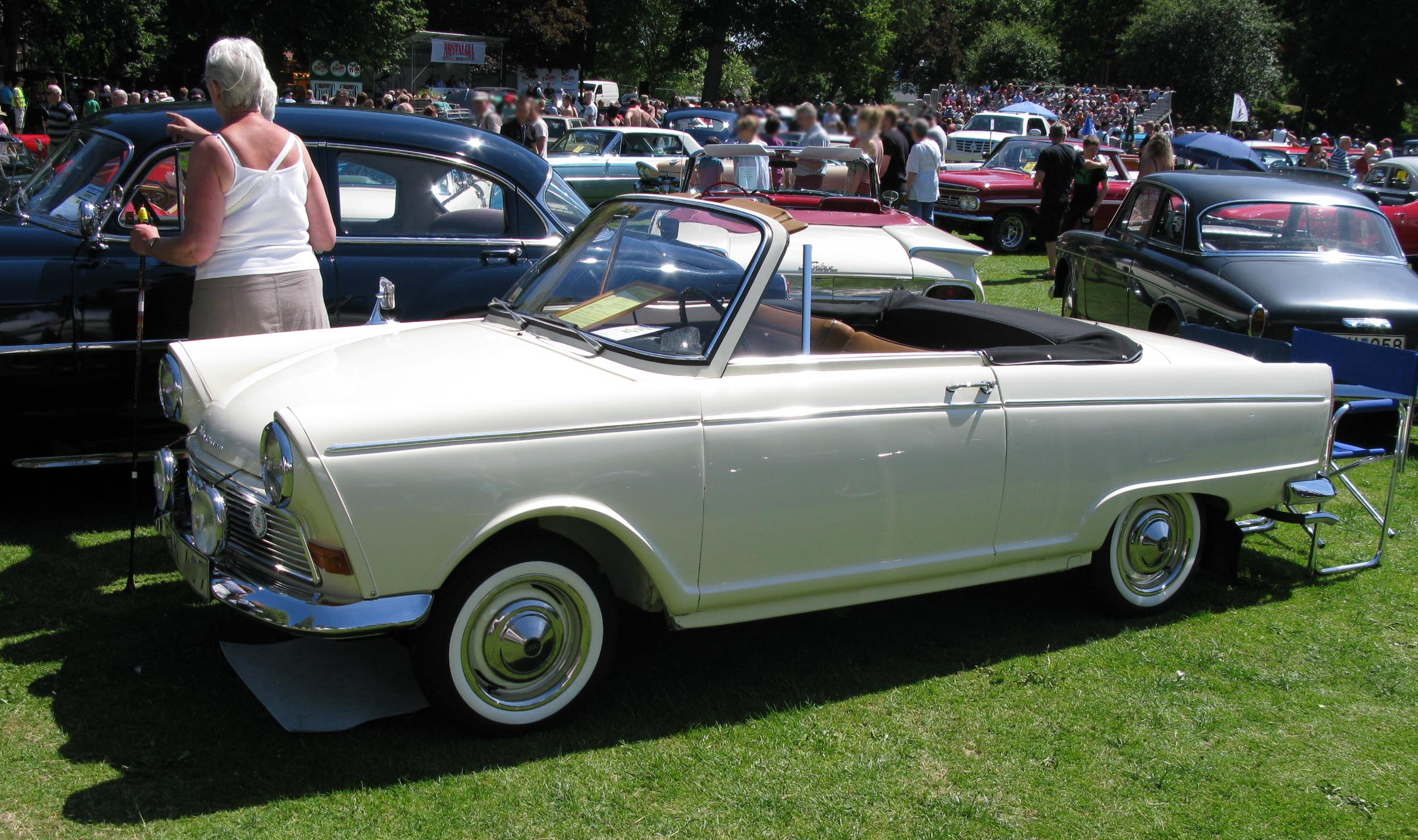 DKW F12 Roadster.Event: Nostalgia festival, Ronneby 2012